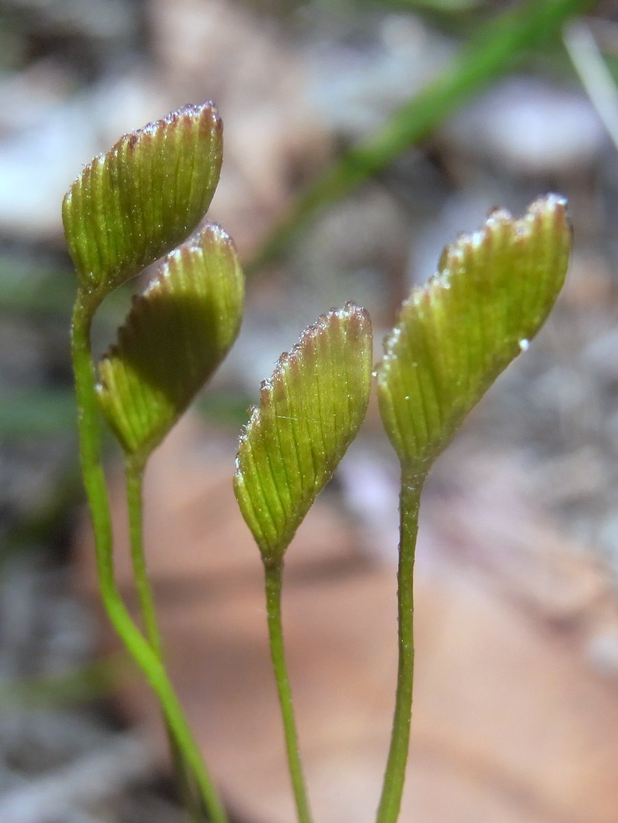 Comb Fern, possibly Schizaea bifida. Waratah Track, Ku-ring-gai Chase National Park, Australia